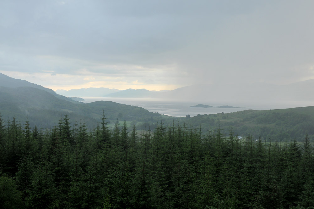 Achadh nan Darach, Glen Duror forest, Scotland. Loch Linnhe in the distance